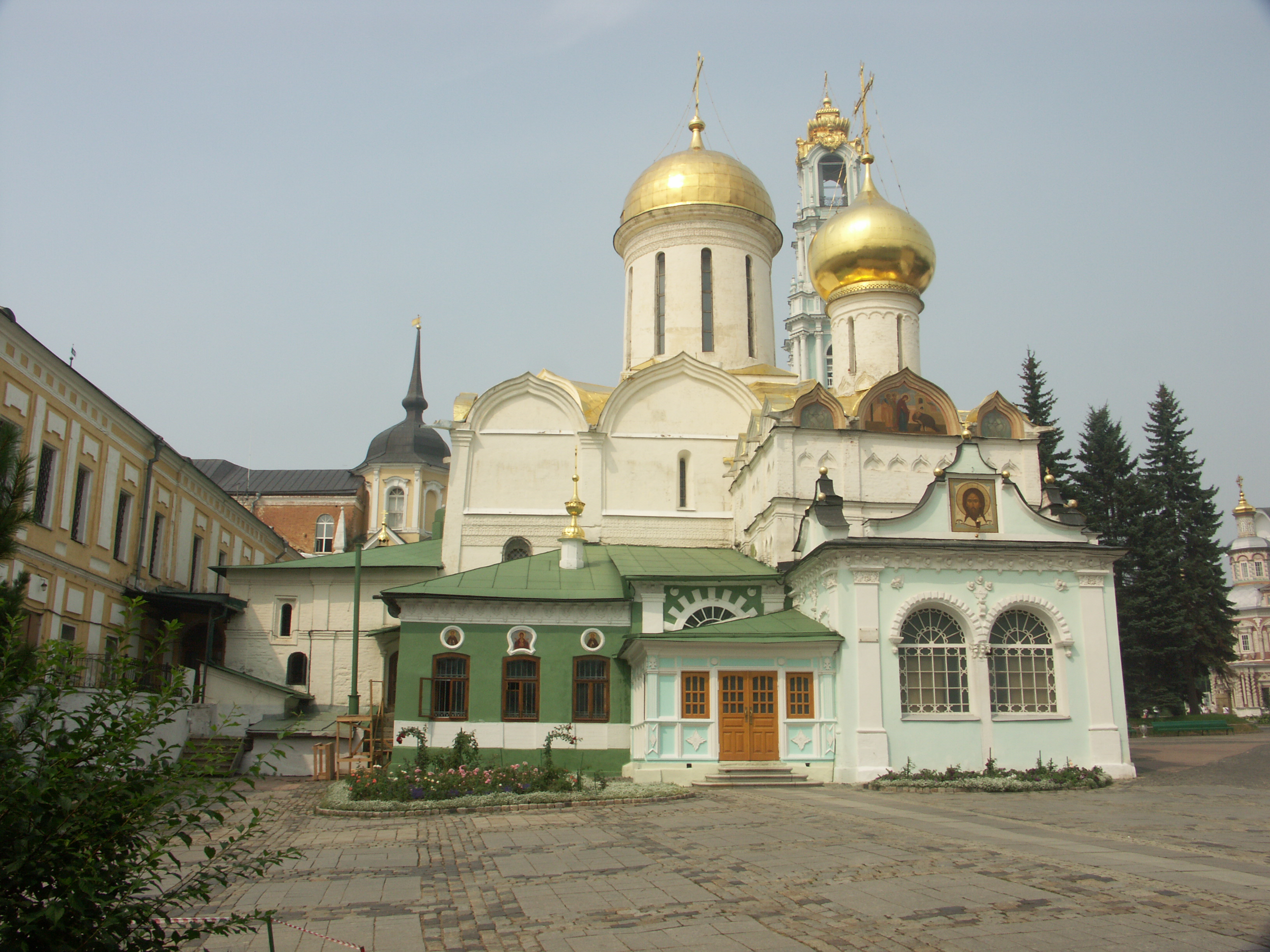 The Trinity Cathedral in Trinity Lavra of St. Sergius